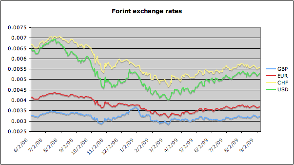 This chart shows Forint exchange rates for British Pounds, Euro, Swiss Franc, and US Dollars from June 2008 to September 2009.